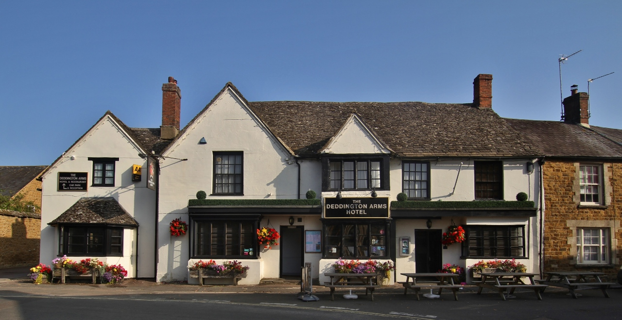 The Deddington Arms Hôtel, Horse Fair, Deddington, Oxfordshire, seen from the south